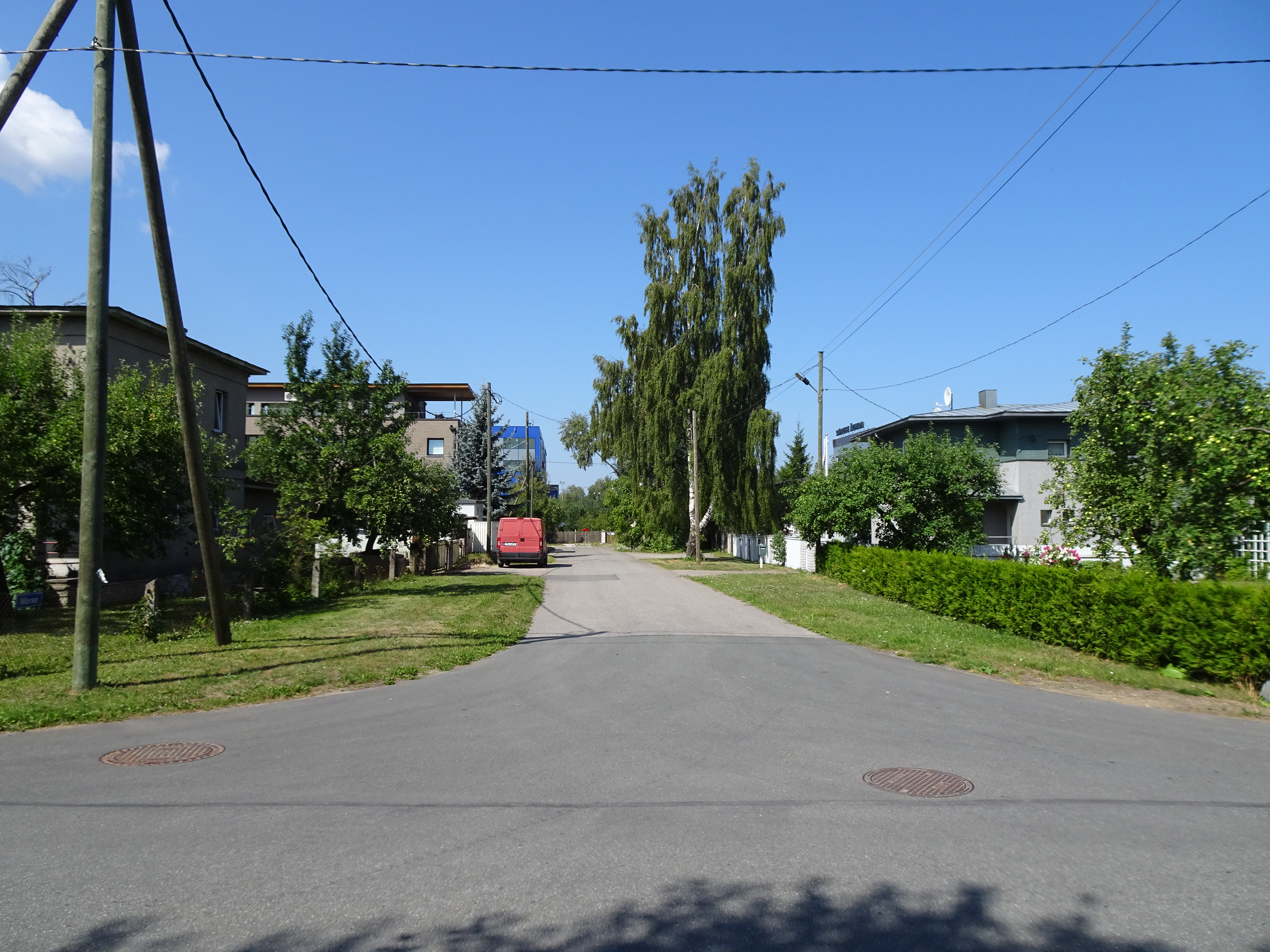 Võrse Street in Tallinn, Estonia